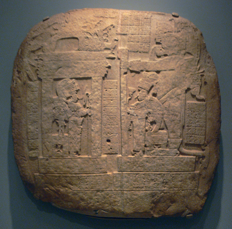 Royal throne effigy; Maya culture, Guatemala, probably La Corona, A.D. 731; 73.5 x 73.2 x 5.7 cm; Limestone Dallas Museum of Art, Dallas, Texas; The Eugene and Margaret McDermott Art Fund, Inc., in honor of Mr. and Mrs. Frederick M. Mayer; object number 1988.15.McD